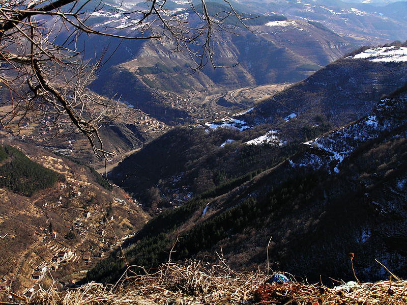 The Iskar Gorge in Stara Planina, Bulgaria.